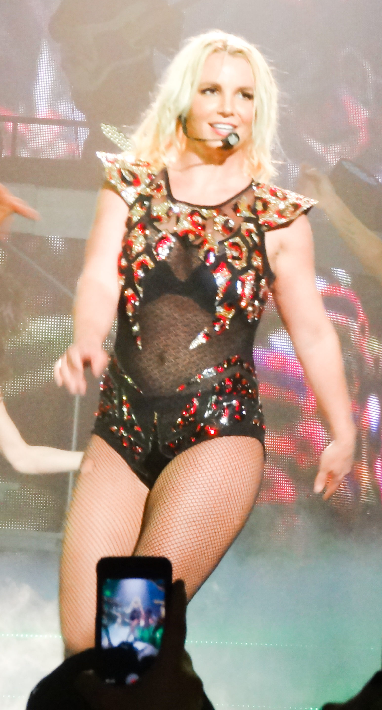 Crazy